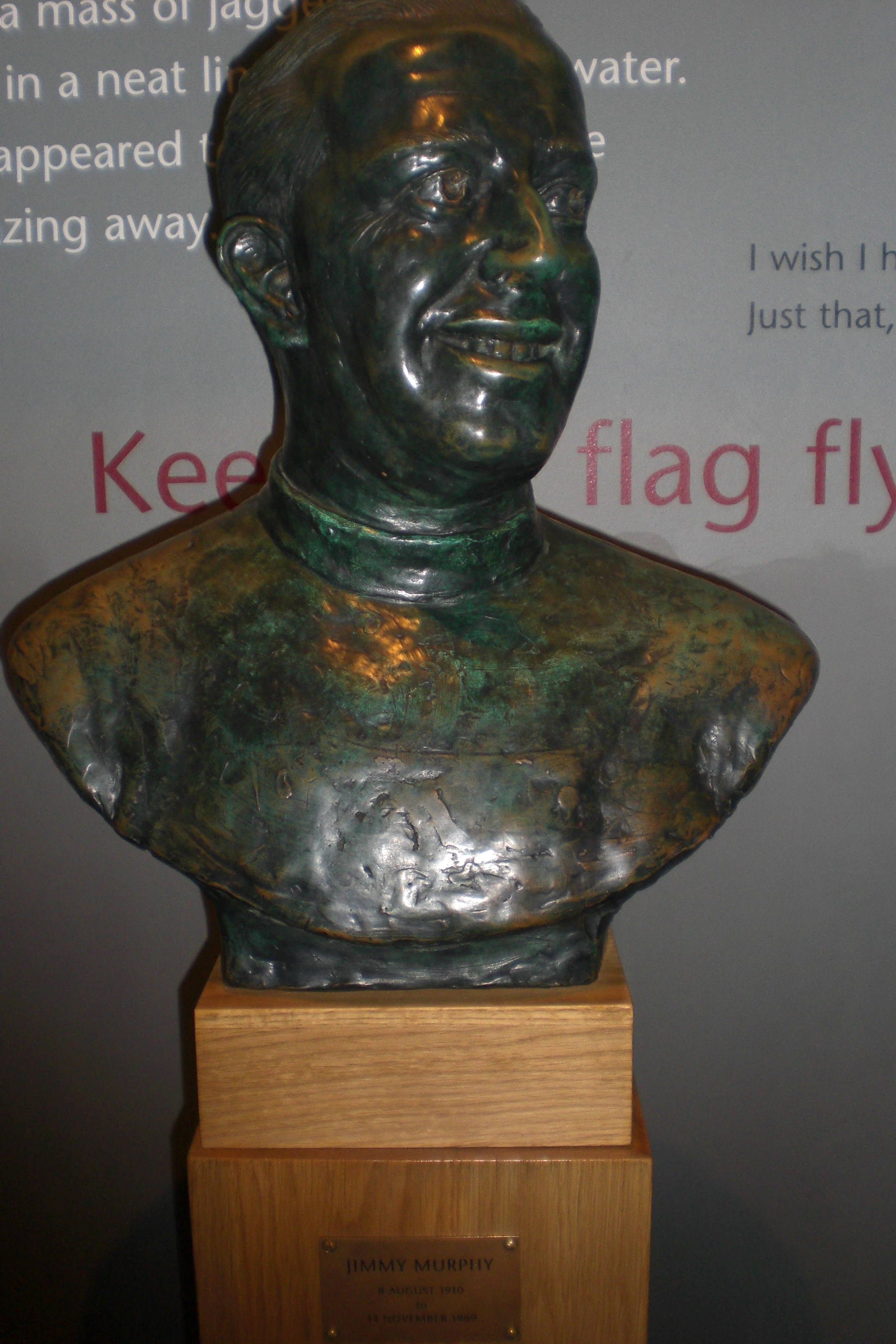 Jimmy Murphy statue